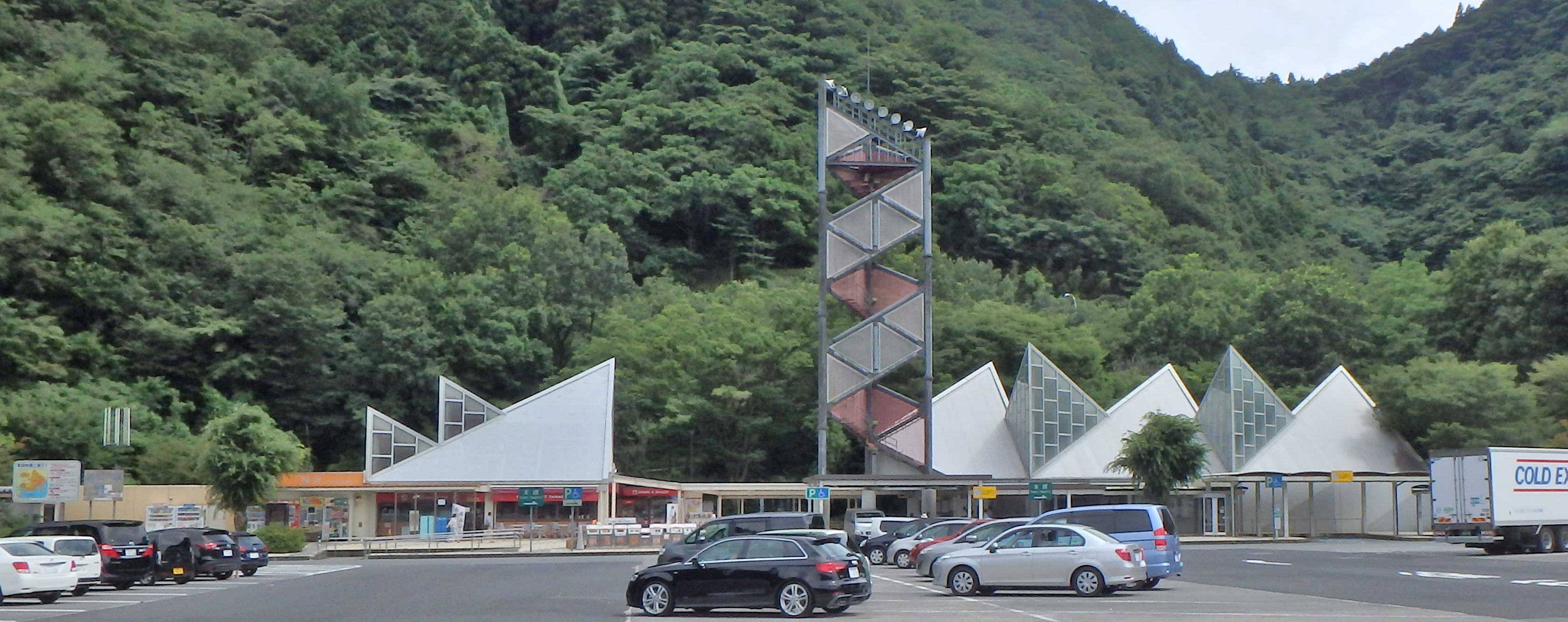 Ayuzawa Parkig Area for Nagoya Kanagawa prefecture,Japan